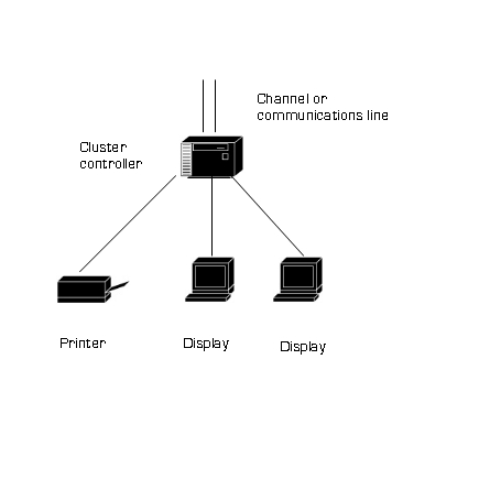 Diagram illustrating clustering of 3270 devices